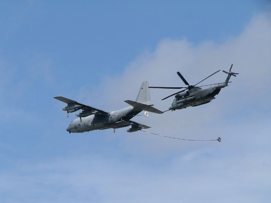 Refuelling demo at RIAT 2004. This is a MC-130P and a MH-53 Pave Low from the 352d Special Operations Group, RAF Mildenhall, UK.